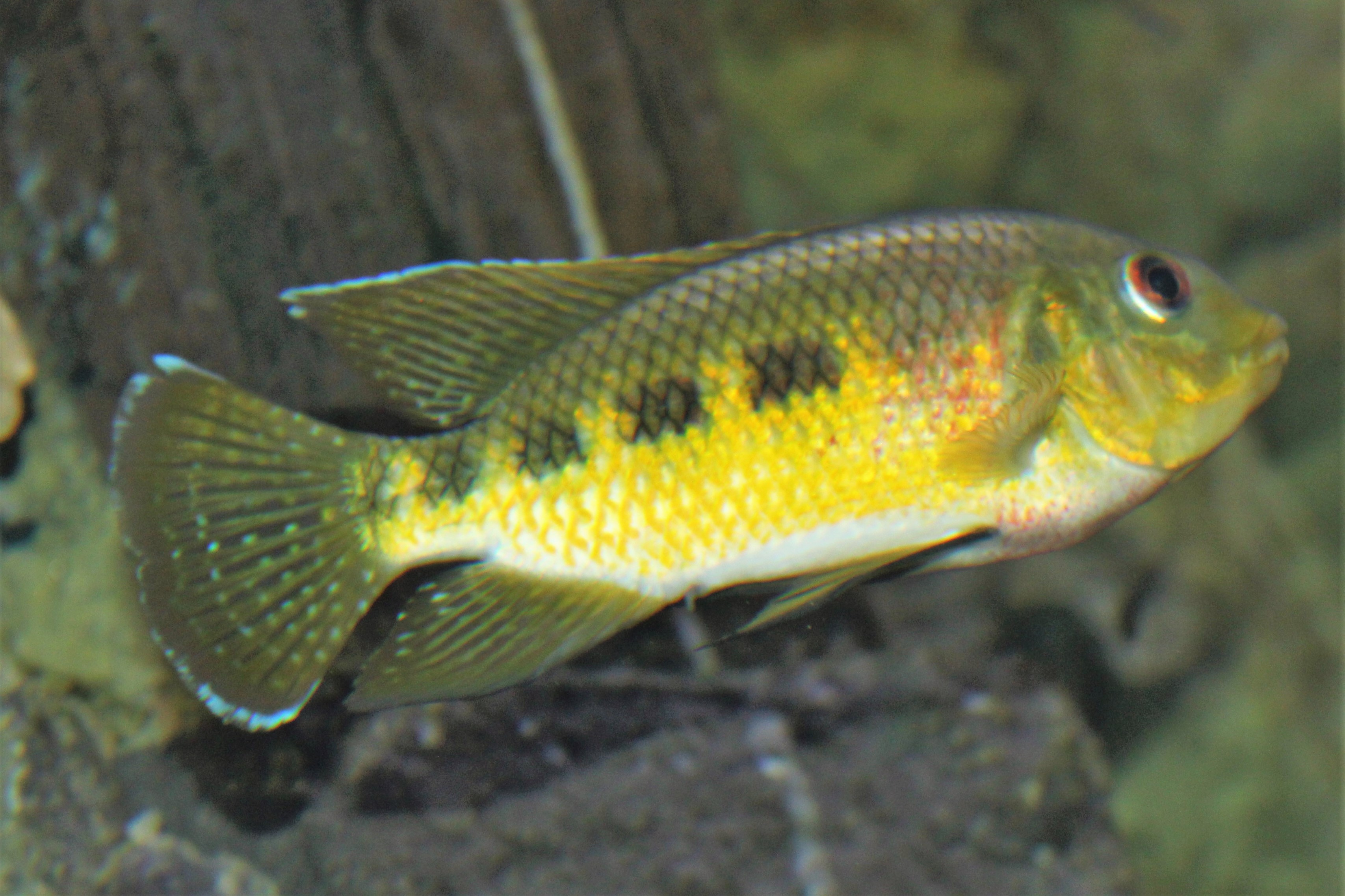 Spotted tilapia, spotted mangrove cichlid or black mangrove cichlid (Pelmatolapia mariae) in Southend-on-Sea aquarium, England.